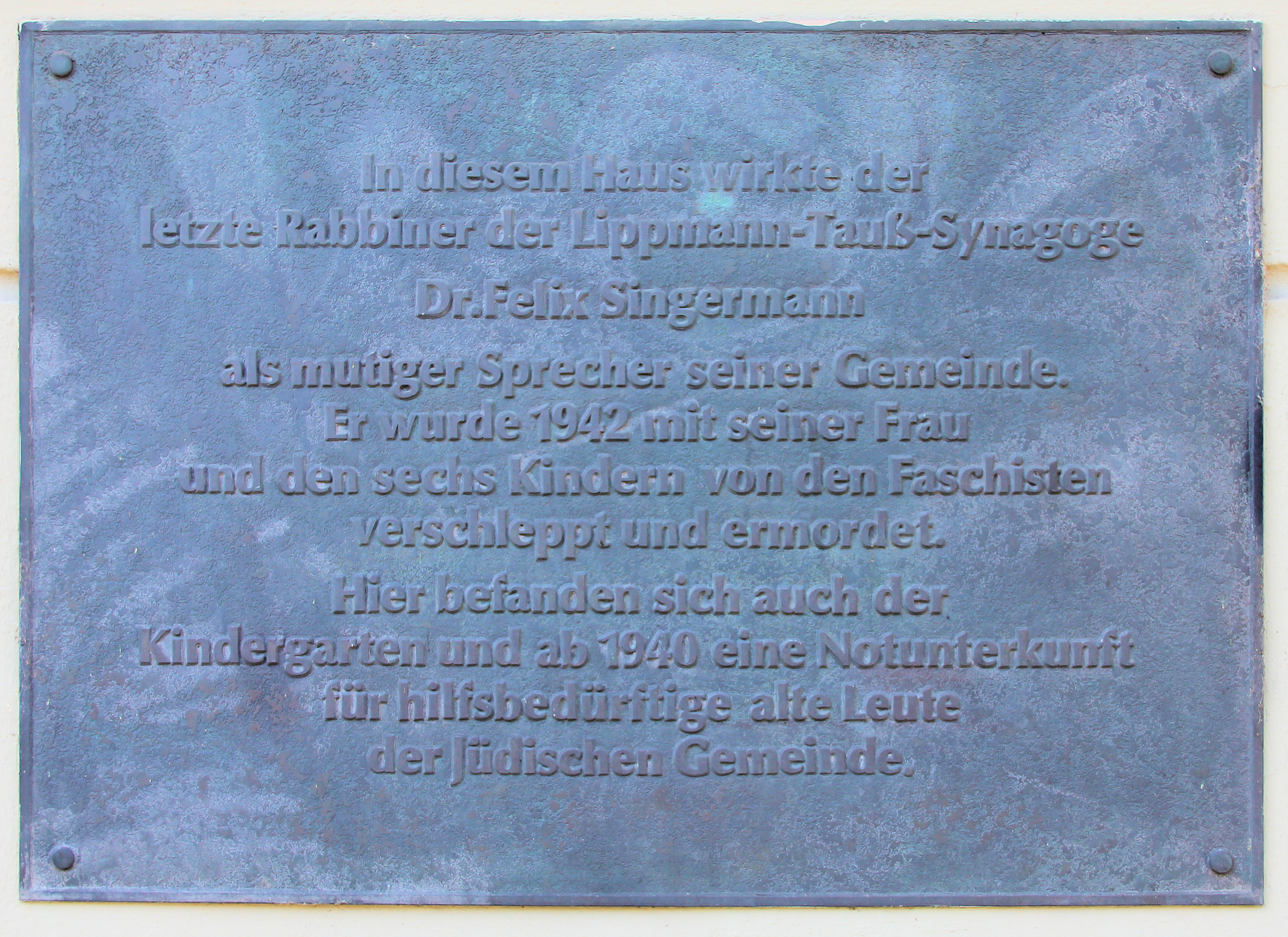 Memorial plaque, Felix Singermann, Friedenstraße 3, Berlin-Friedrichshain, Germany Koordinate:52°31′37″N 13°25′36″E / 52.52694°N 13.42667°E